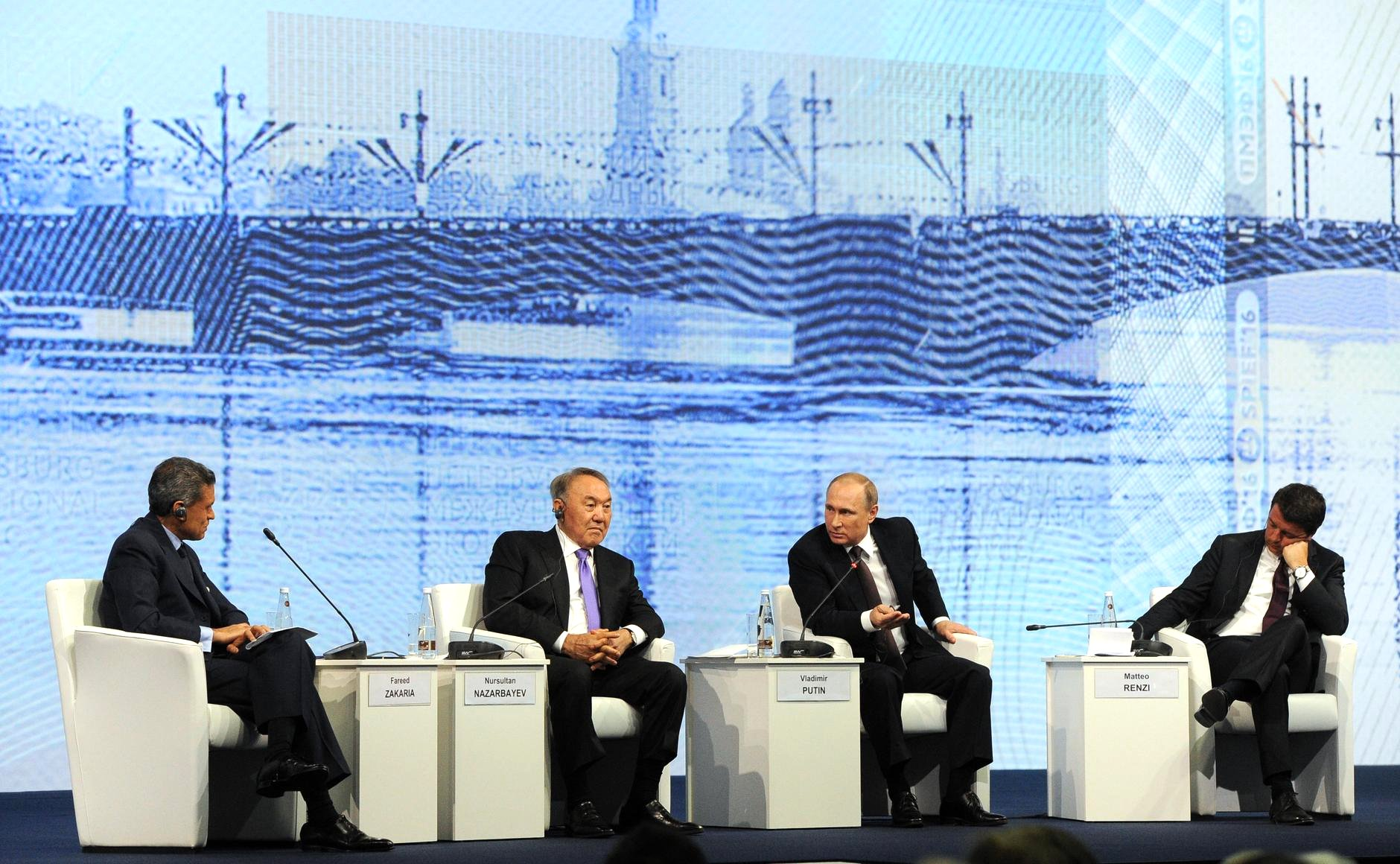 Plenary session of St Petersburg International Economic Forum (2016-06-17)